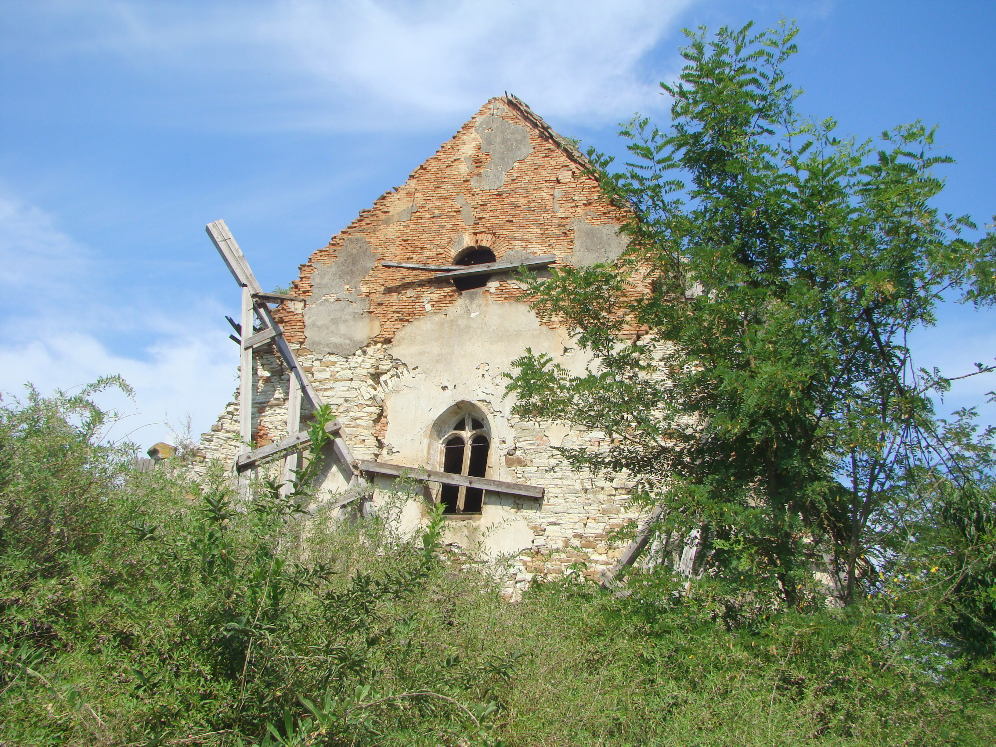 Lutheran church in Vermeș, Bistrița-Năsăud county, Romania